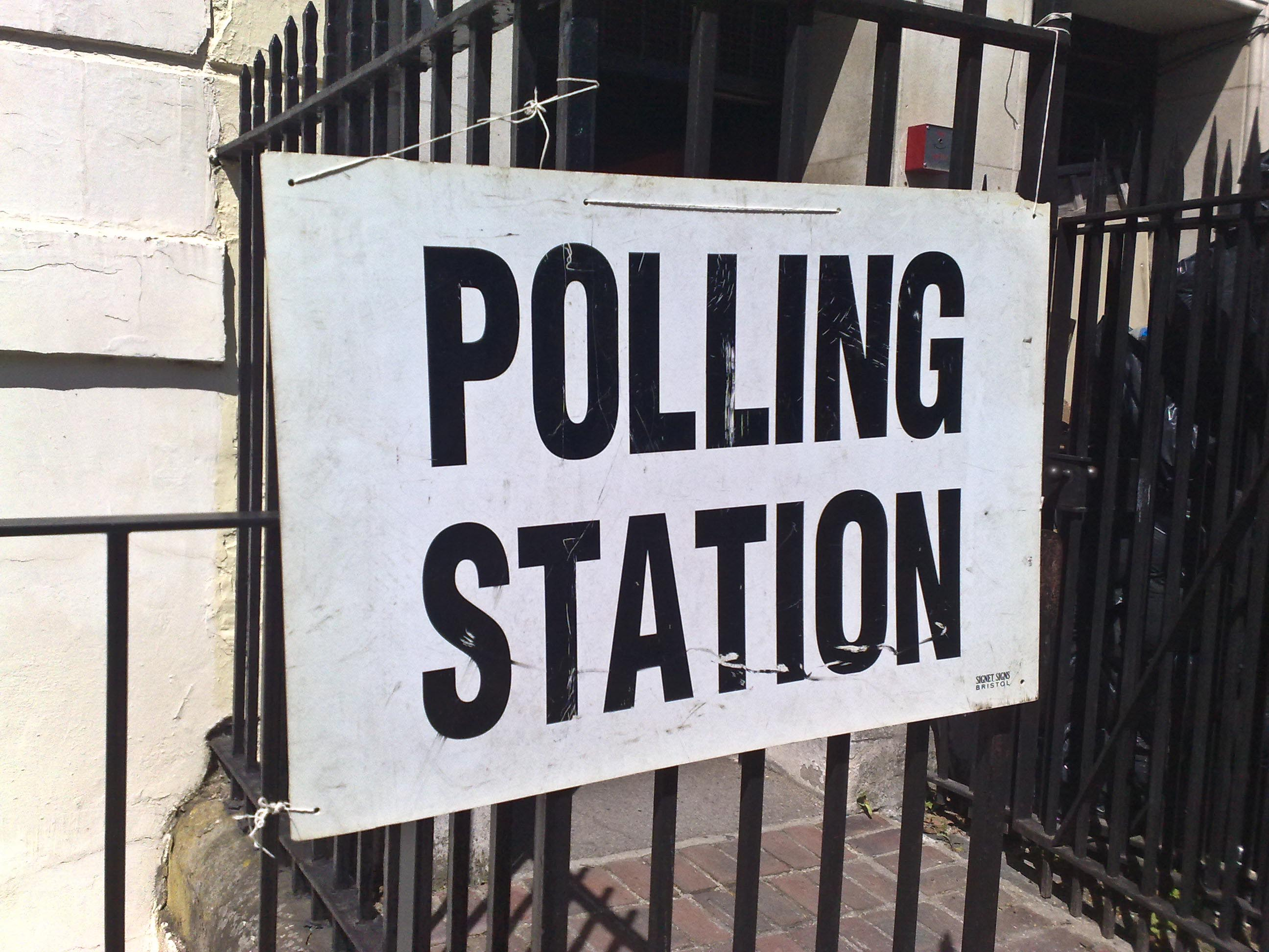 Polling station sign, London. UK general election (and local council elections), 6 May 2010. This sign was outside a polling station (normally a primary school) in Camberwell, London SE5.